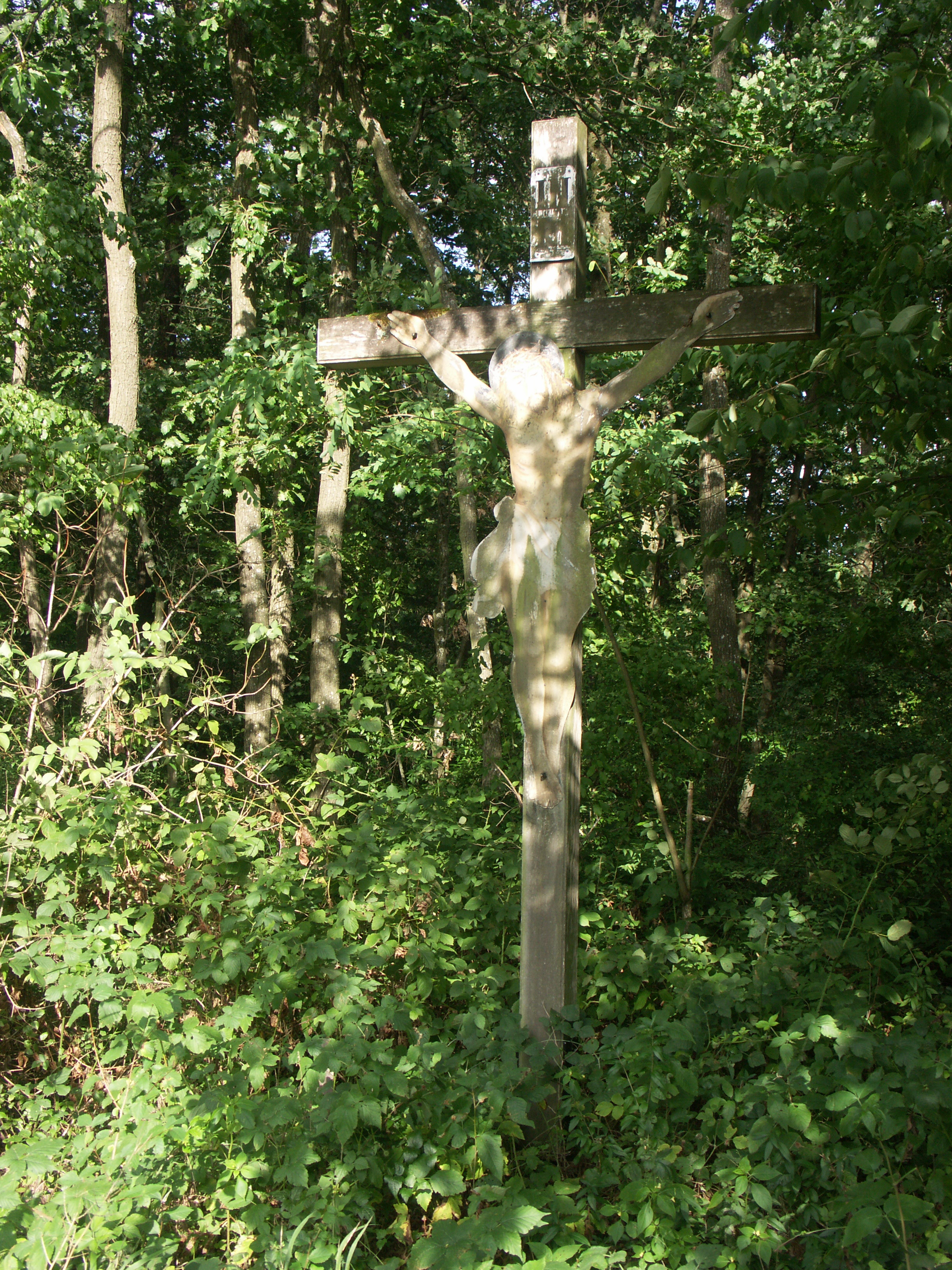 Bibersteinerkreuz, a wayside cross near Hollabrunn, Austria